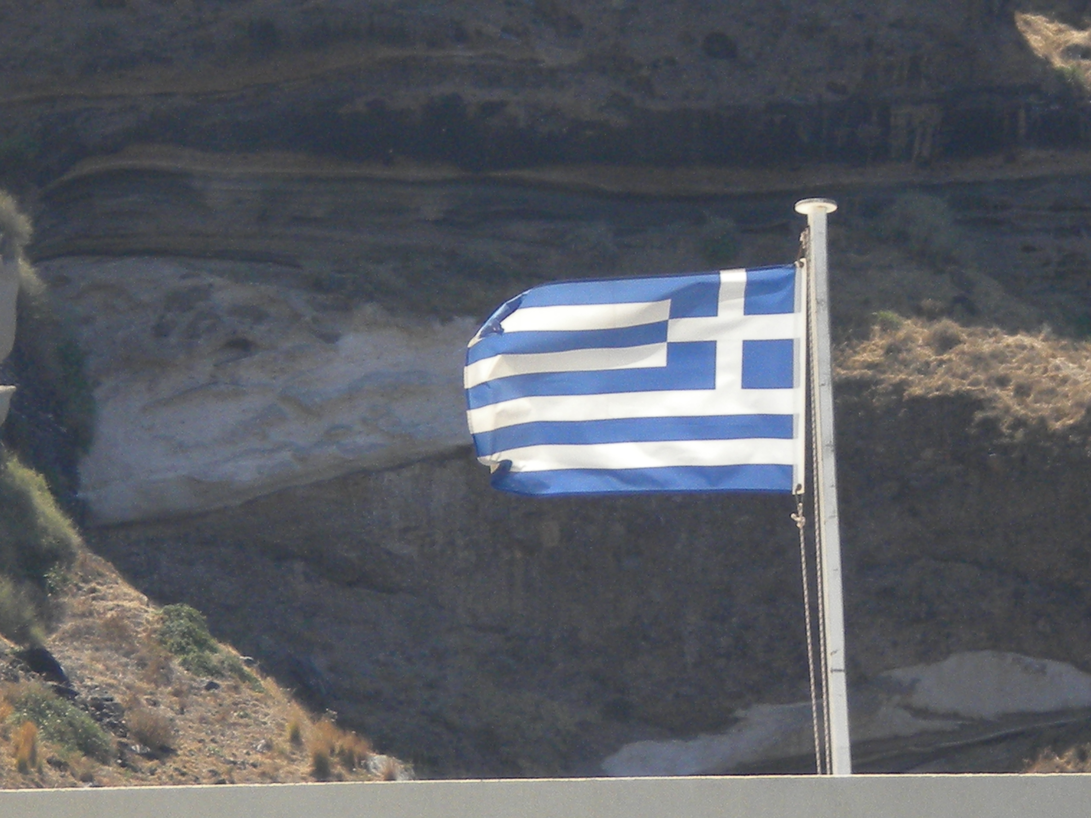 Flag of Greece